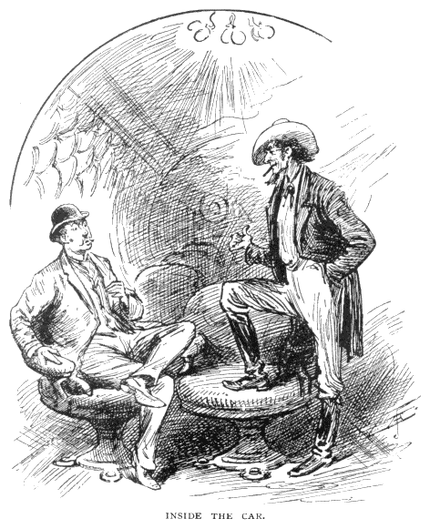 Illustration of Michel Verne: An Express of the Future. In: The Strand Magazine of November 1895